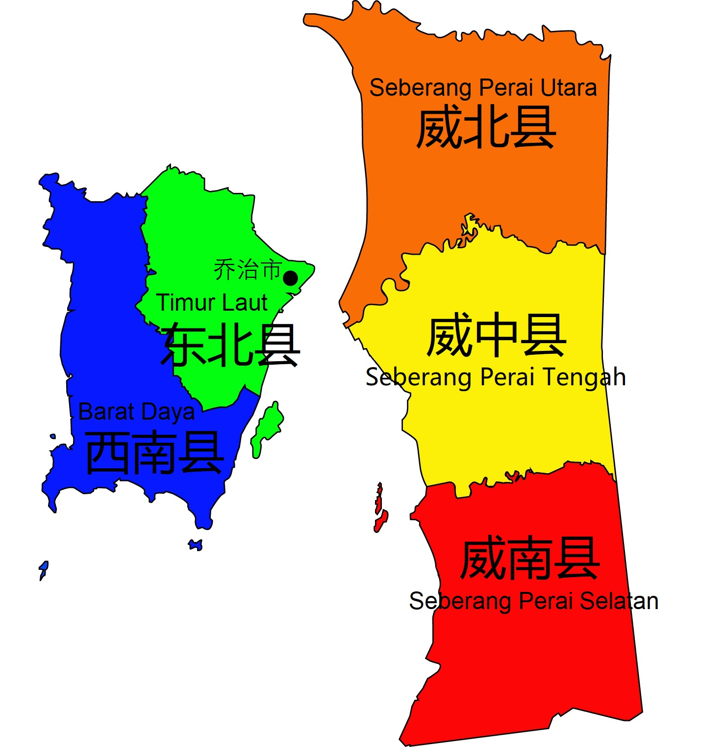 The map shows five districts of the state of Penang in Malaysia.